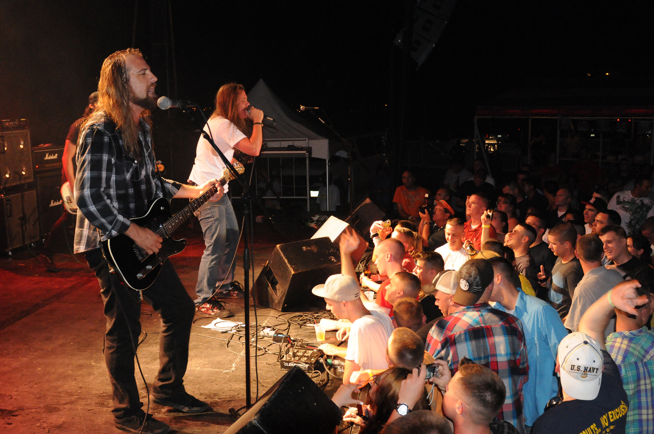 GUANTANAMO BAY, Cuba (May 31, 2010) The Red Jumpsuit Apparatus performs a Memorial Day weekend concert for U.S. military service members at U.S. Naval Station Guantanamo Bay, Cuba. The band was sponsored by Navy Entertainment and brought to the island by the base Morale, Welfare, and Recreation office. (U.S. Navy photo by Mass Communication Specialist 3rd Class Joshua Nistas/Released)